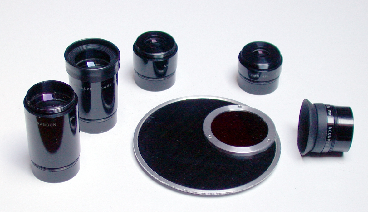 Questar Brandon eyepieces and solar filter